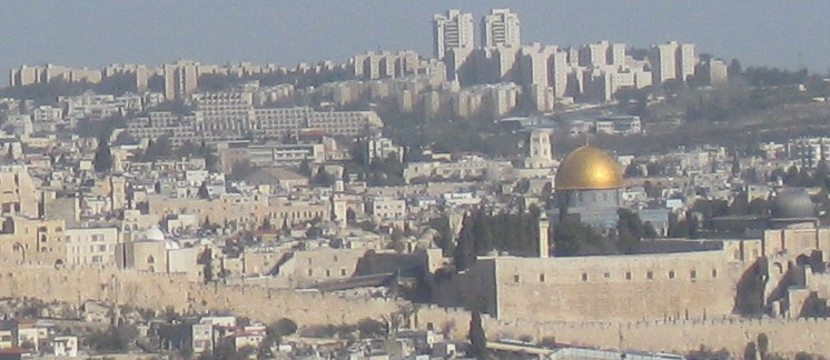 Views from Armon Hanatsiv Promenade